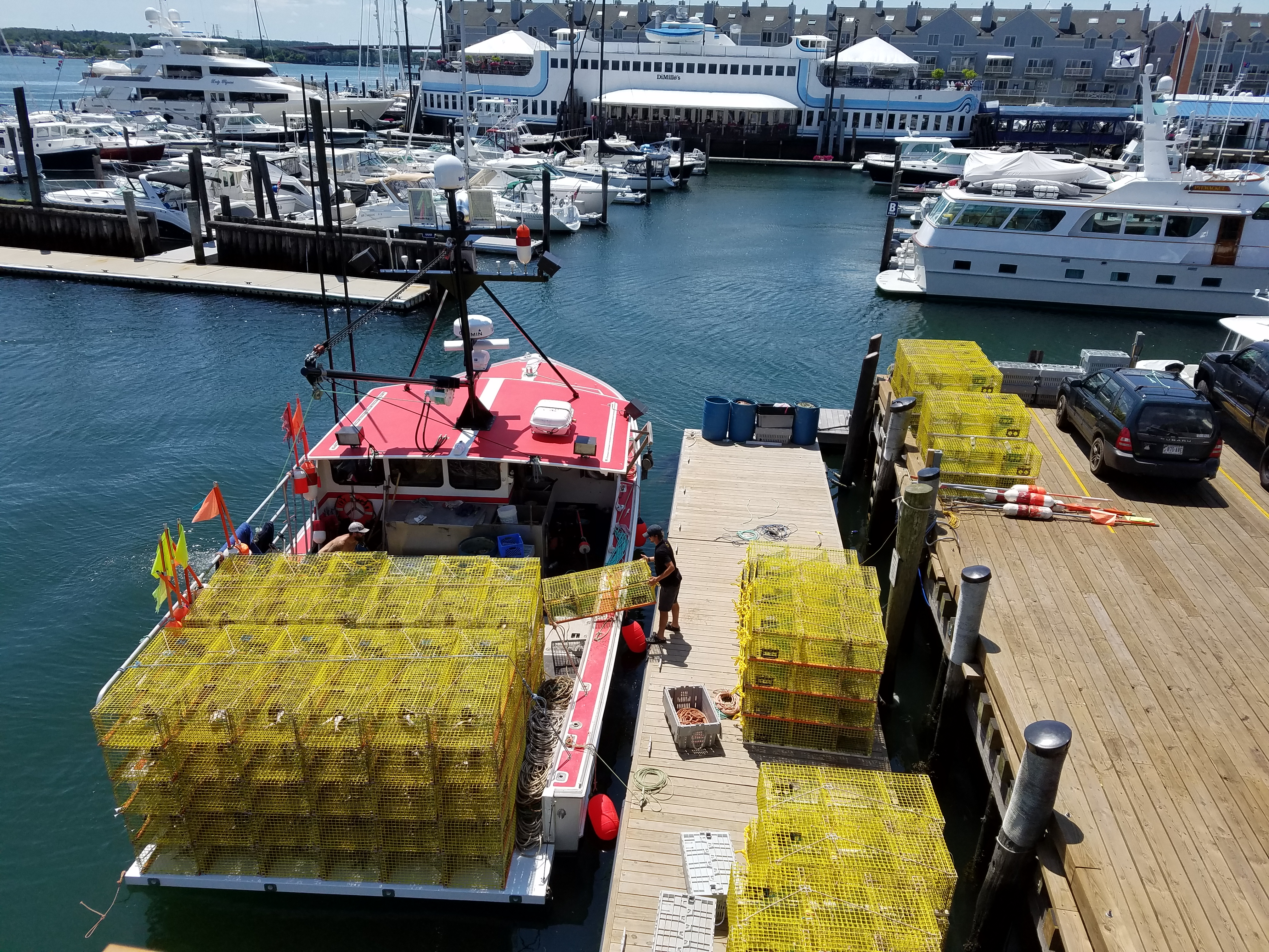 Lobster Boat